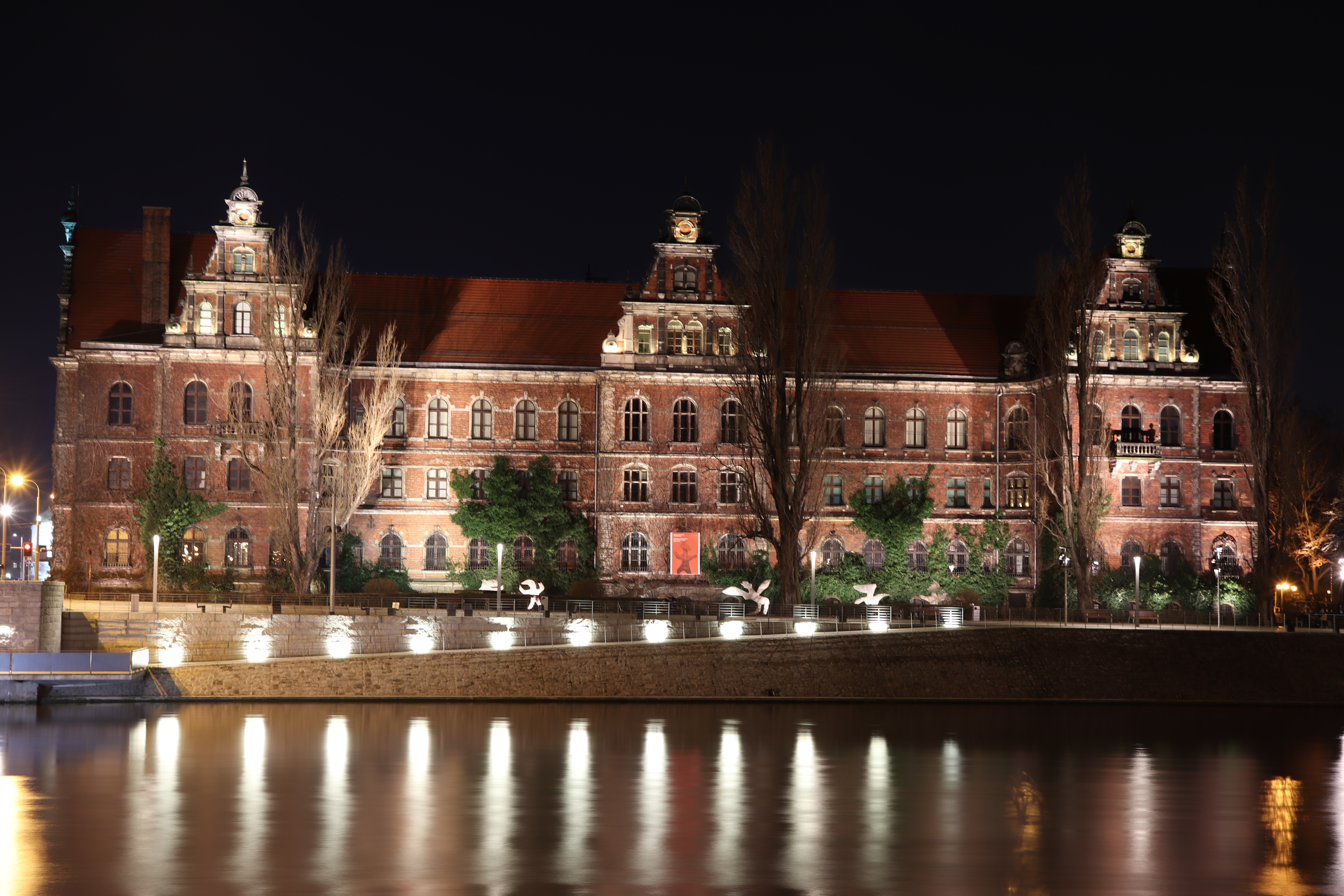 Wrocław - National Museum